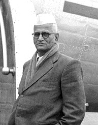 Photo Studio/2.2.1952,A22nPhoto taken on departure of Minister for Finance Shri C.D. Deshmukh from Palam Airport on February 2, 1952.